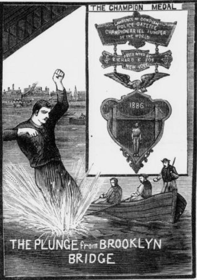 Illustration of Larry Donovan jumping from the Brooklyn Bridge. Inset: illustration of medal awarded to him.